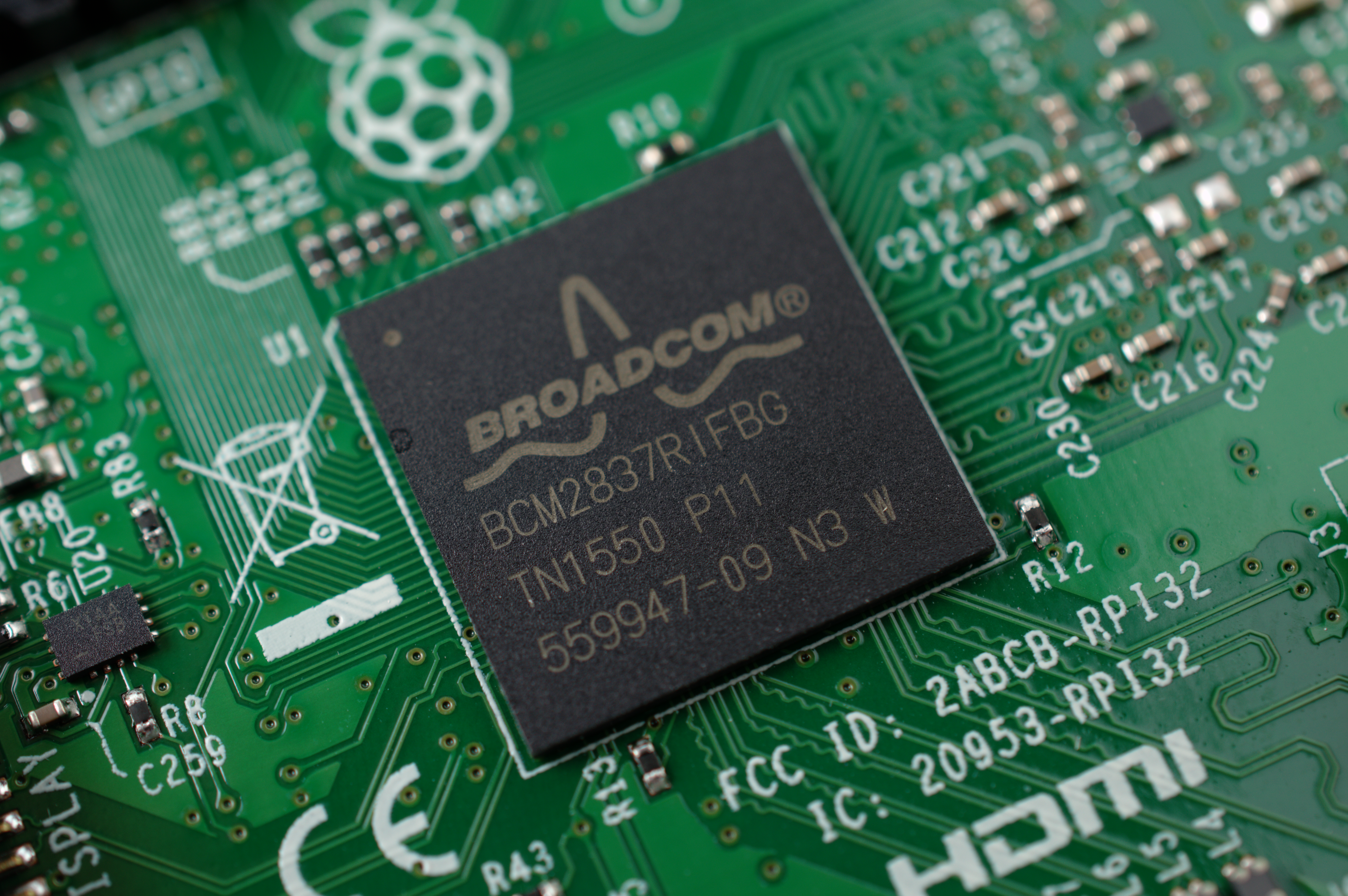 The Raspberry Pi 3 single-board computer, supplied as a press sample by the Raspberry Pi Foundation.